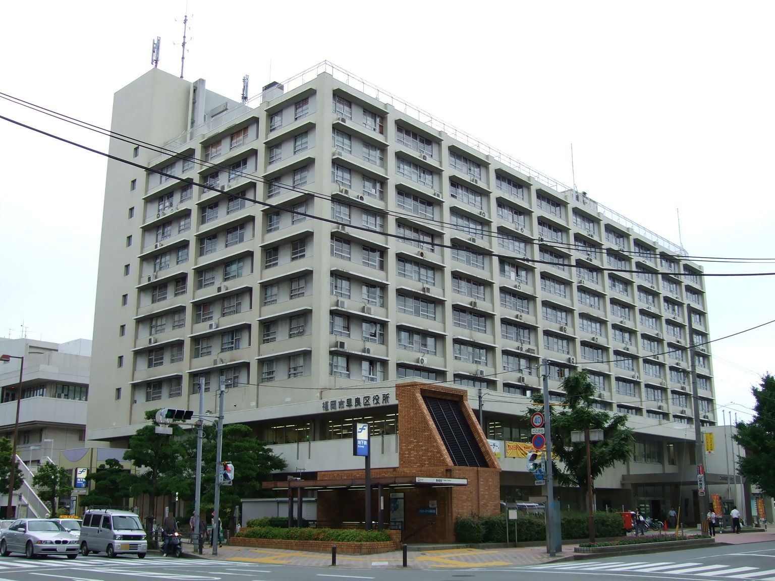 Fukuoka City Sawara Ward office